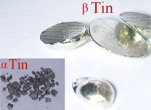 tin allotropes